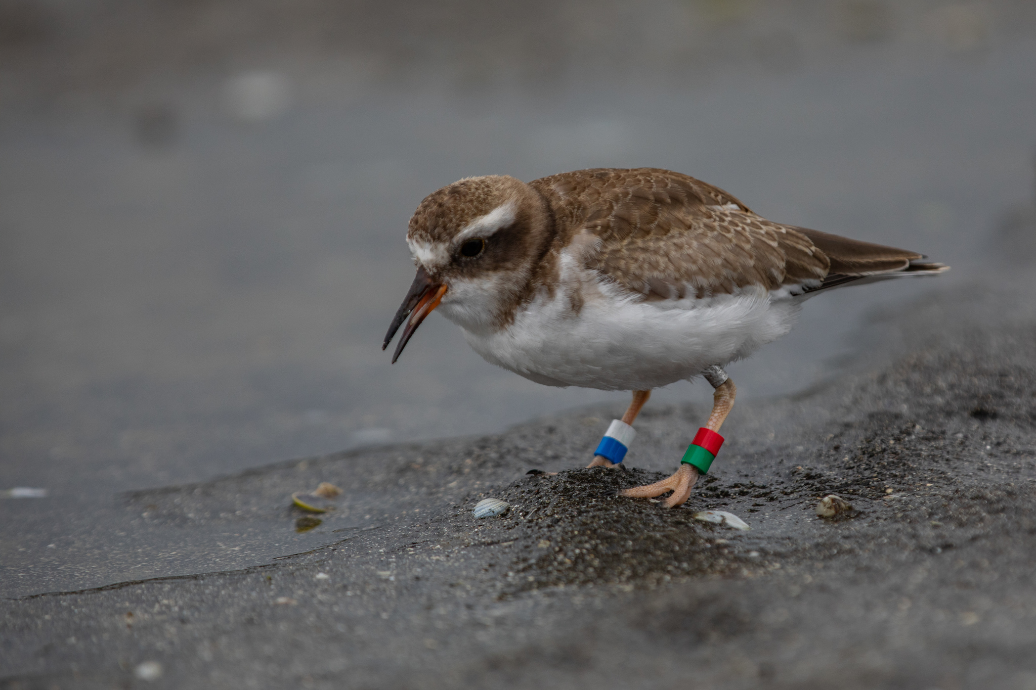 Shore Plover (Thinornis novaeseelandiae)